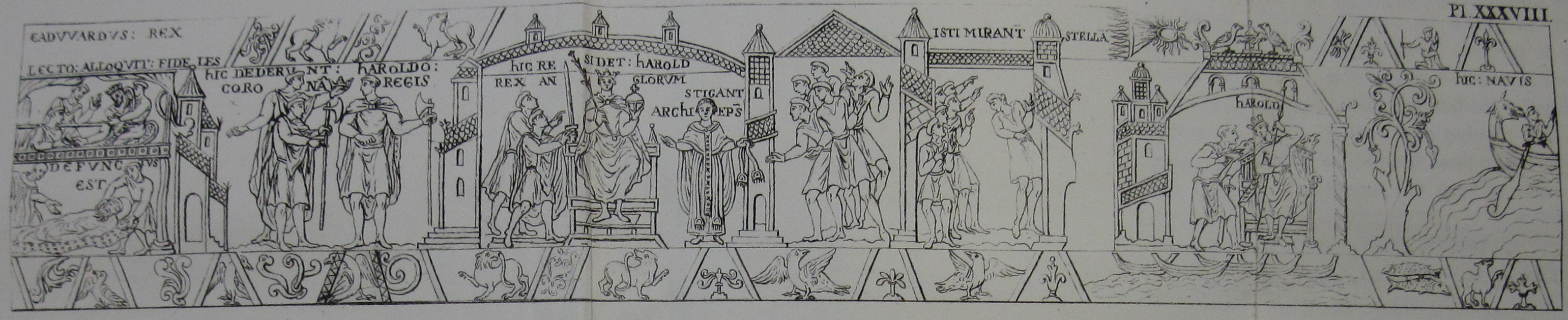 This work is in the public domain in its country of origin and other countries and areas where the copyright term is the author's life plus 70 years or fewer. You must also include a United States public domain tag to indicate why this work is in the public domain in the United States. Note that a few countries have copyright terms longer than 70 years: Mexico has 100 years, Jamaica has 95 years, Colombia has 80 years, and Guatemala and Samoa have 75 years. This image may not be in the public domain in these countries, which moreover do not implement the rule of the shorter term. Côte d'Ivoire has a general copyright term of 99 years and Honduras has 75 years, but they do implement the rule of the shorter term. Copyright may extend on works created by French who died for France in World War II (more information), Russians who served in the Eastern Front of World War II (known as the Great Patriotic War in Russia) and posthumously rehabilitated victims of Soviet repressions (more information). This file has been identified as being free of known restrictions under copyright law, including all related and neighboring rights.